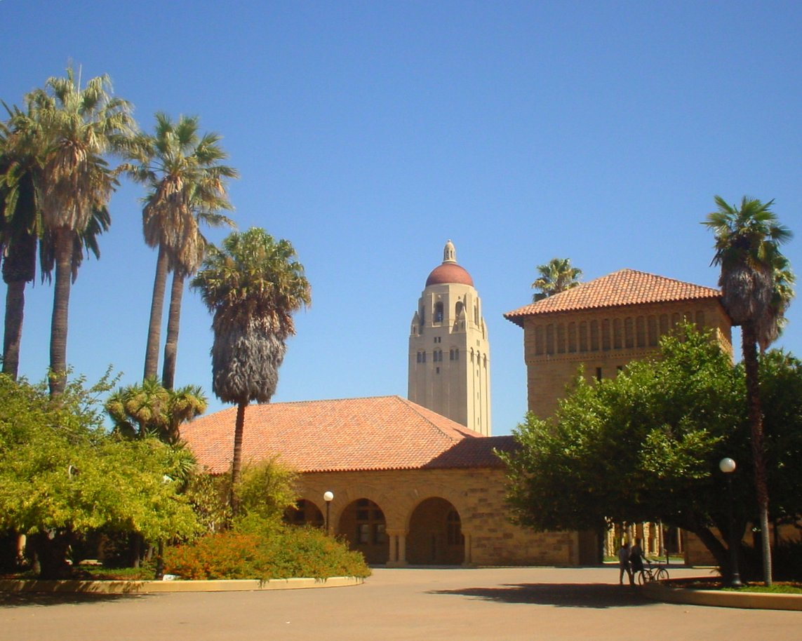 Stanford University Main Quad with palms, Hoover Tower in backround.